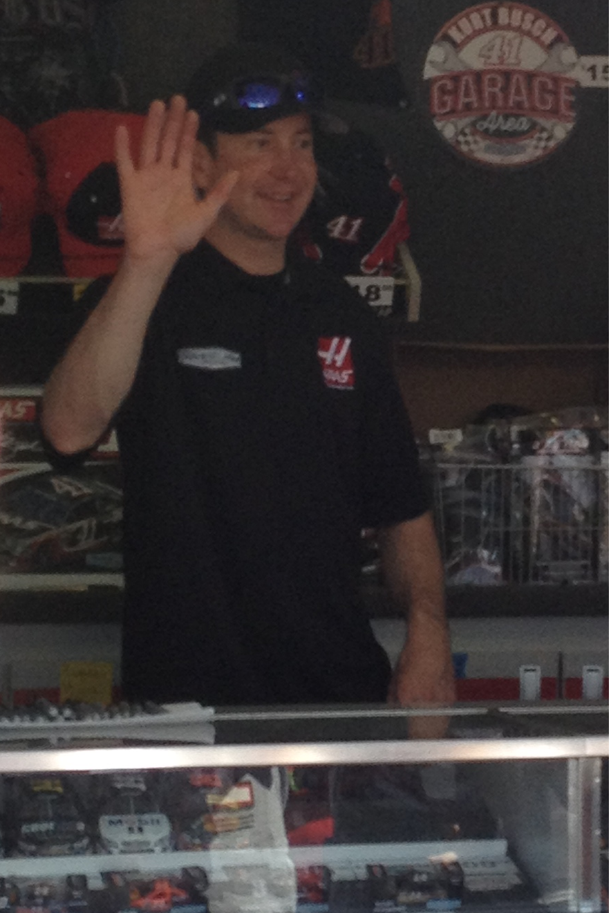 Kurt Busch at his souvenir trailer signing autographs